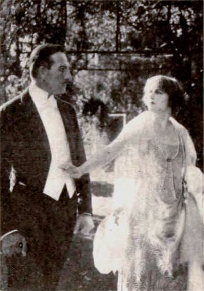 Still from the American horror crime drama film Black Shadows (1920) with Edwin B. Tilton and Peggy Hyland, on page 75 of the March 20, 1920 Exhibitors Herald.